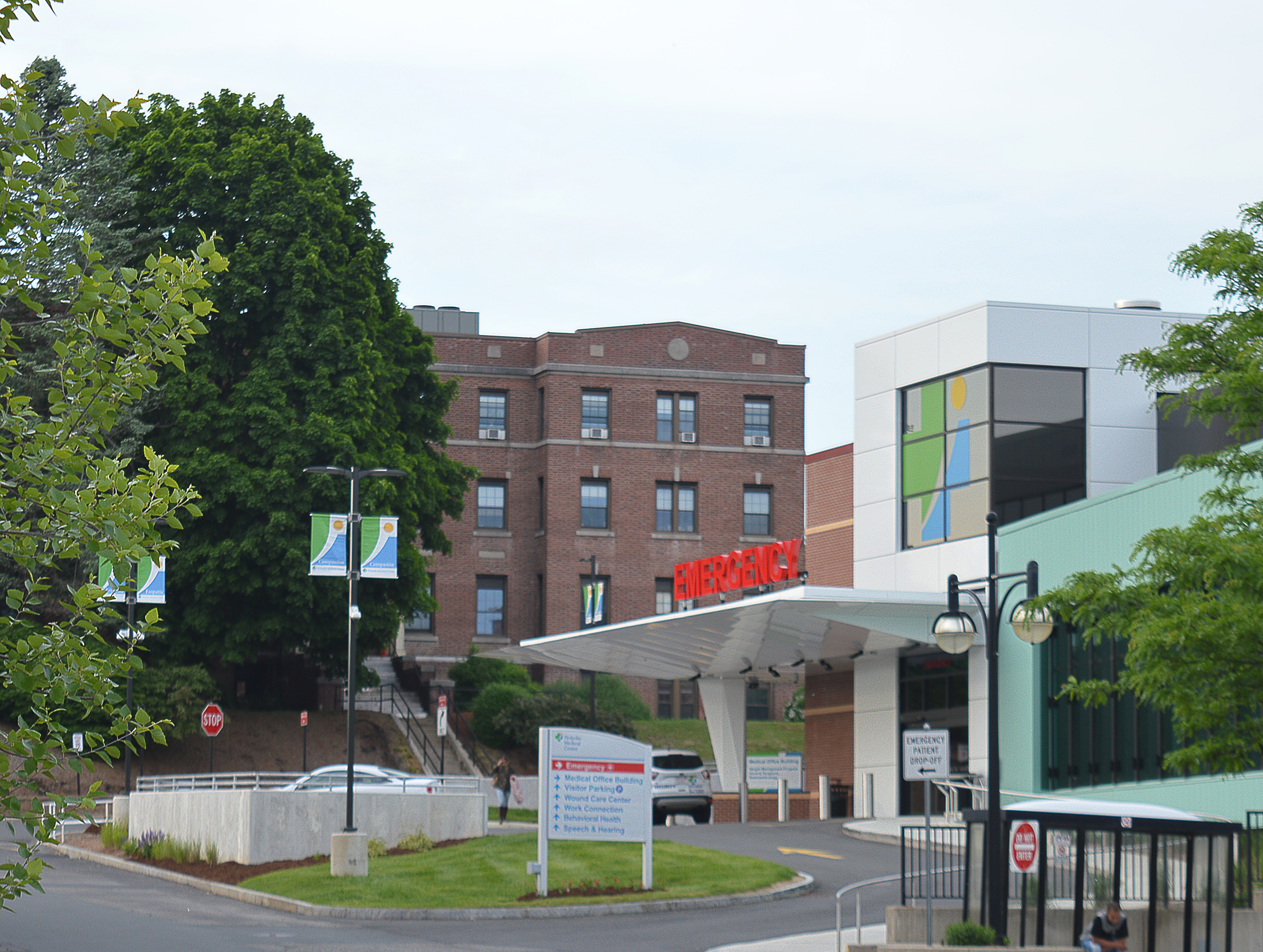 Emergency room of the Holyoke Medical Center, completed in 2017 to update facilities and increase patient capacity.